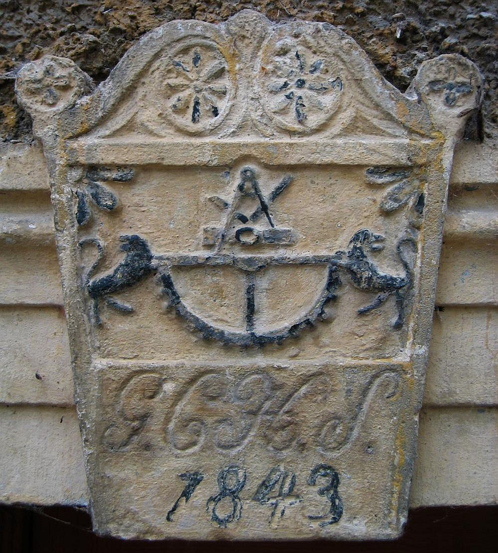 Lintel ornament of the former saw mill building at Zschachenmühle from 1843